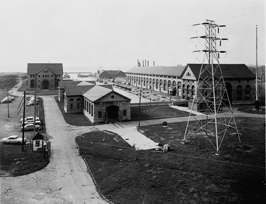 Adams Power Plant, general view from southeast.